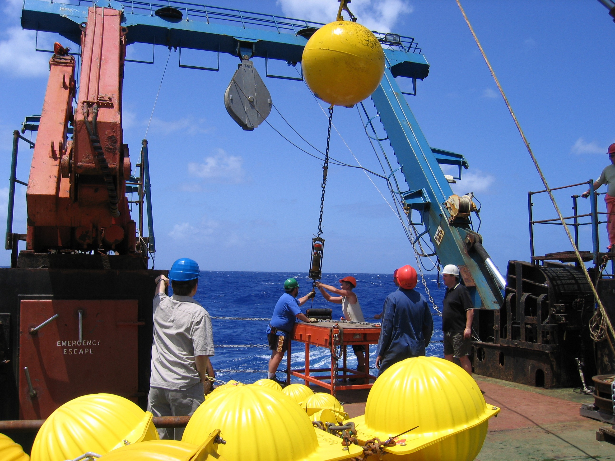 Deployment of RAPID mooring.